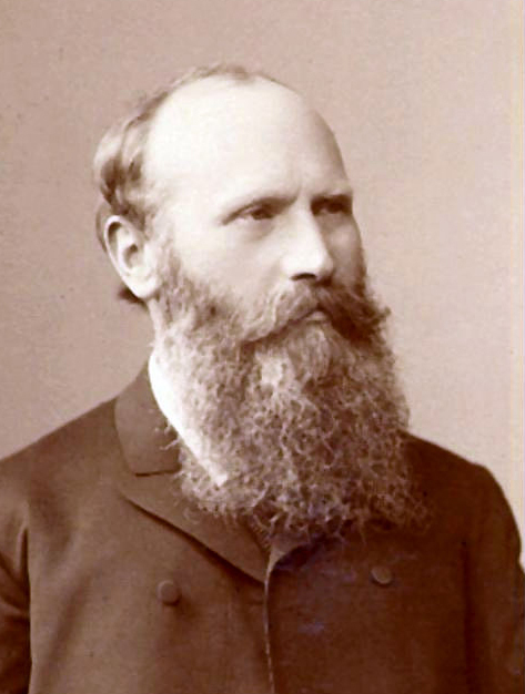 Heinrich Wilhelm Waldeyer (1836–1921), German anatomist and pathologist